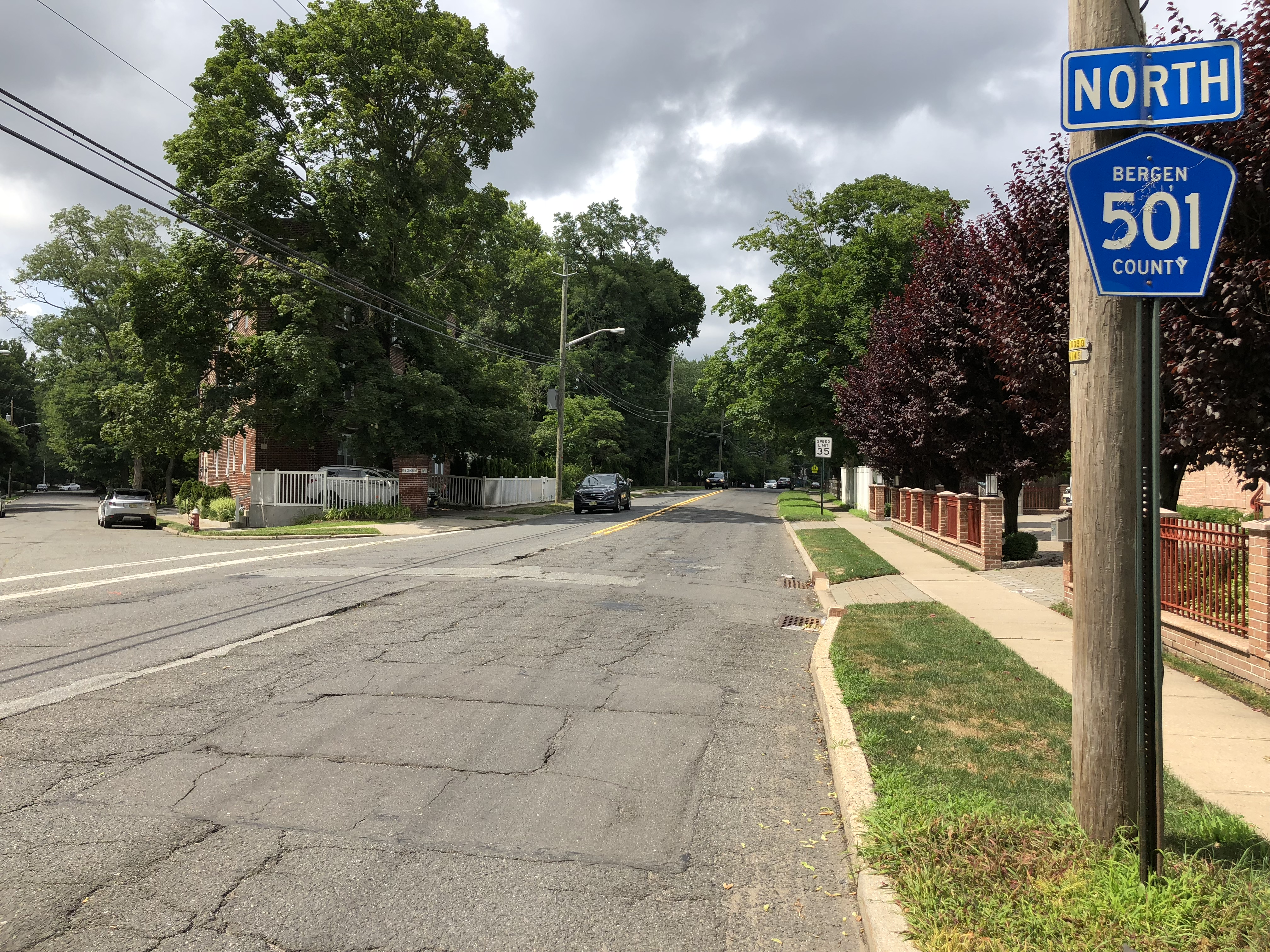 View north along Bergen County Route 501 (County Road) at Linwood Avenue in Cresskill, Bergen County, New Jersey